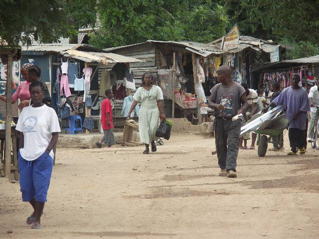 Photograph of the Buduburam refugee camp west of Accra, Ghana, home to more than 40,000 refugees from Liberia. Photographed by Andy Carvin in July 2005.